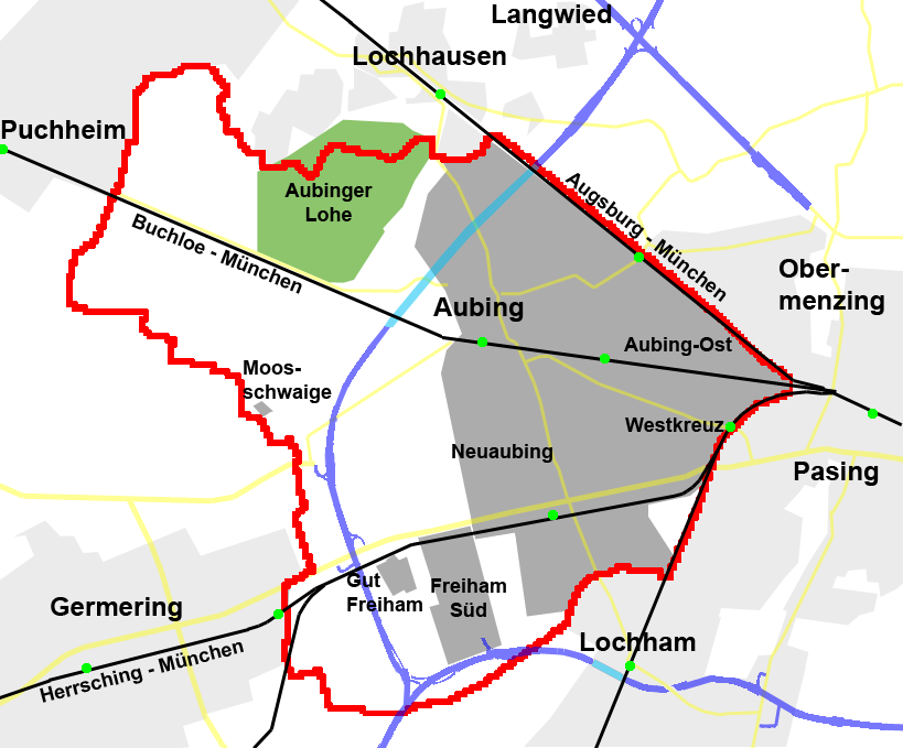 Map of Aubing, now a part of Munich